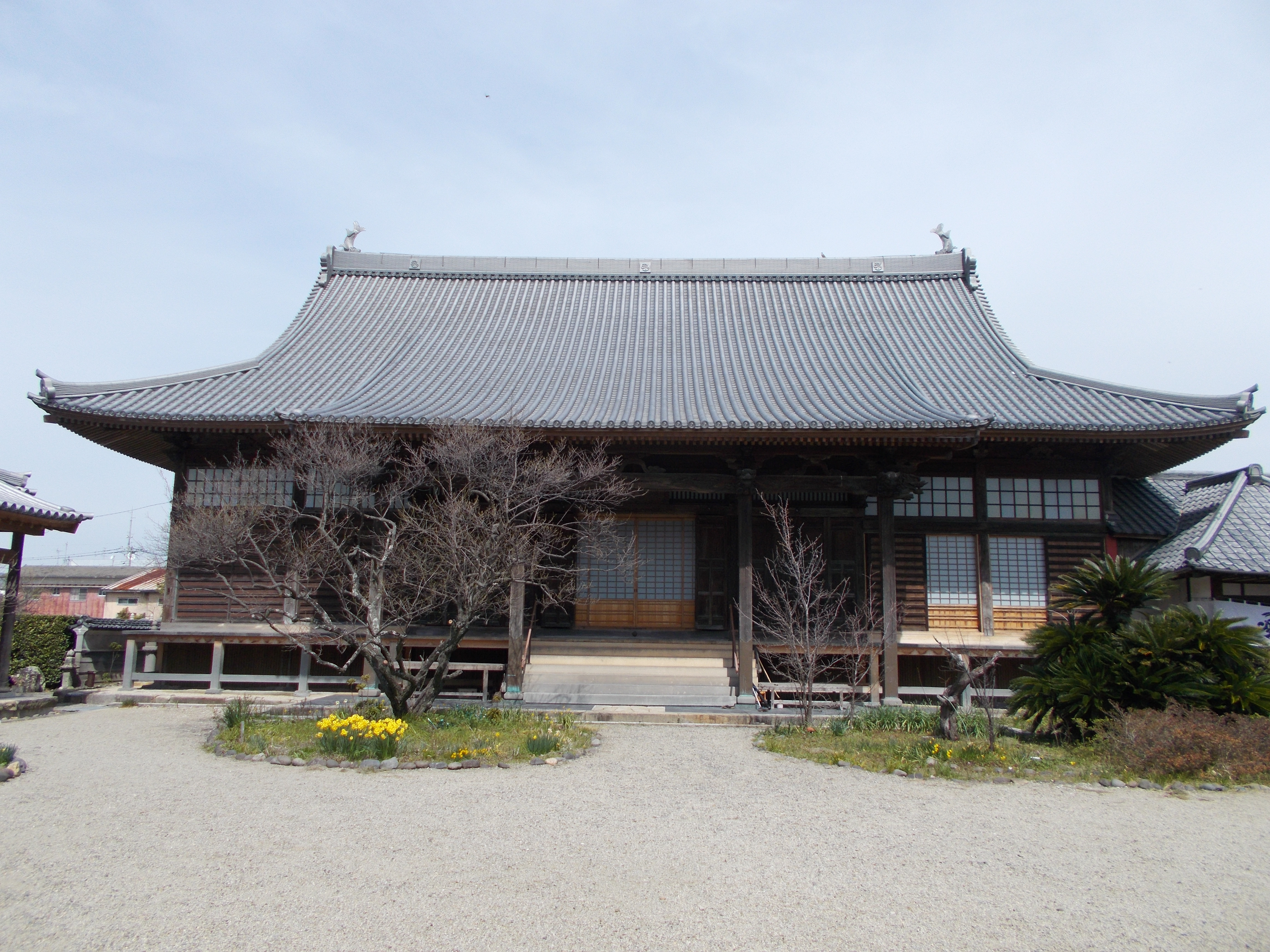 Hondo or the main hall of Fukugon-ji, Yanagawa, Fukuoka, Japan